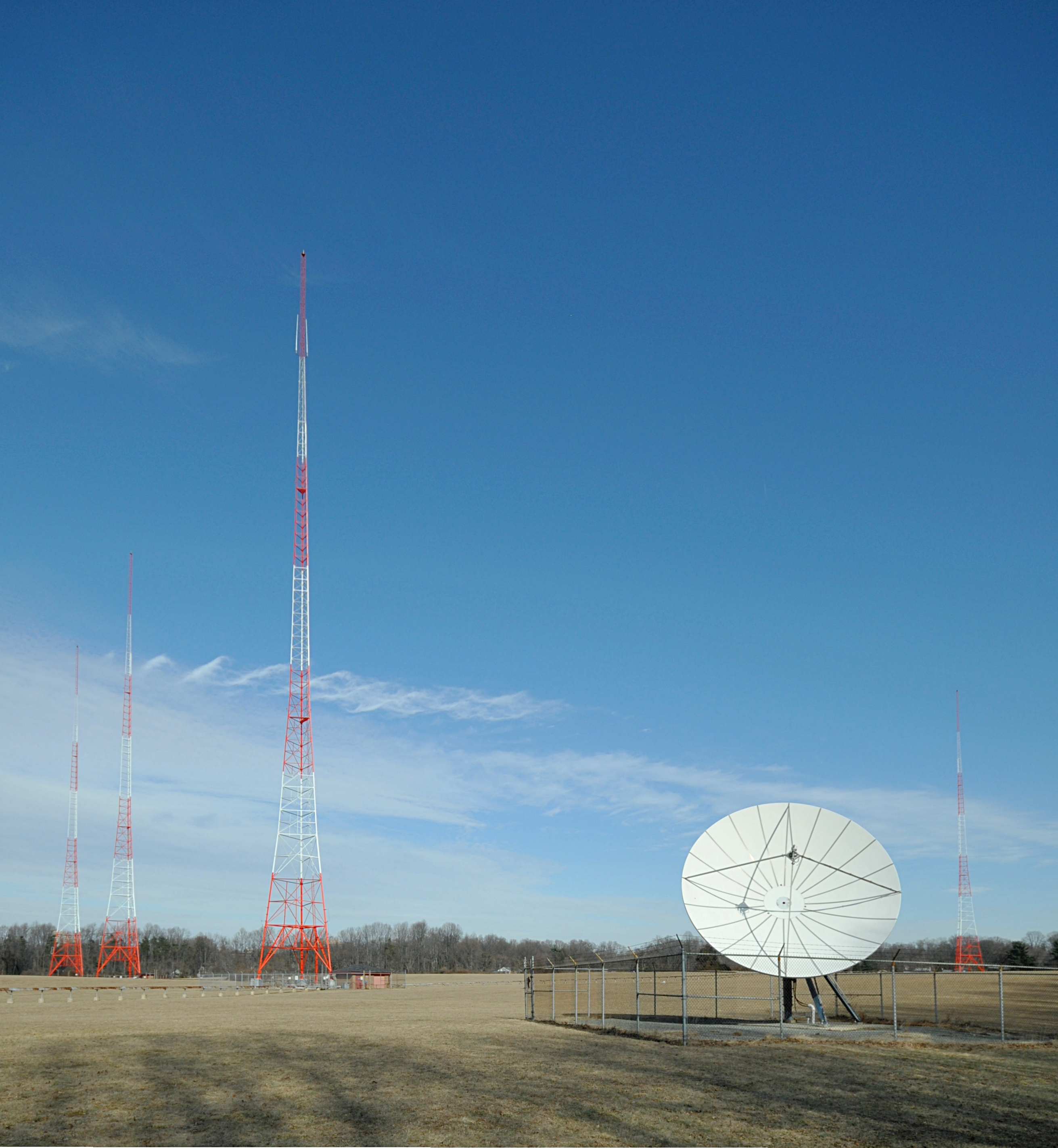 WMAL radio transmitting towers in Bethesda, MD